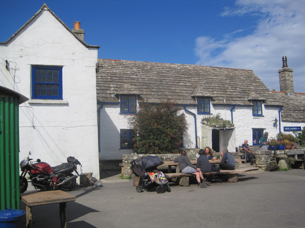 Square and Compass - Worth Matravers